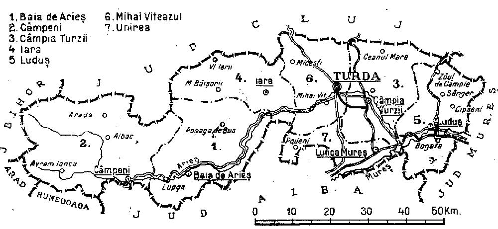 Map of Turda interwar county, Kingdom of Romania (1938).